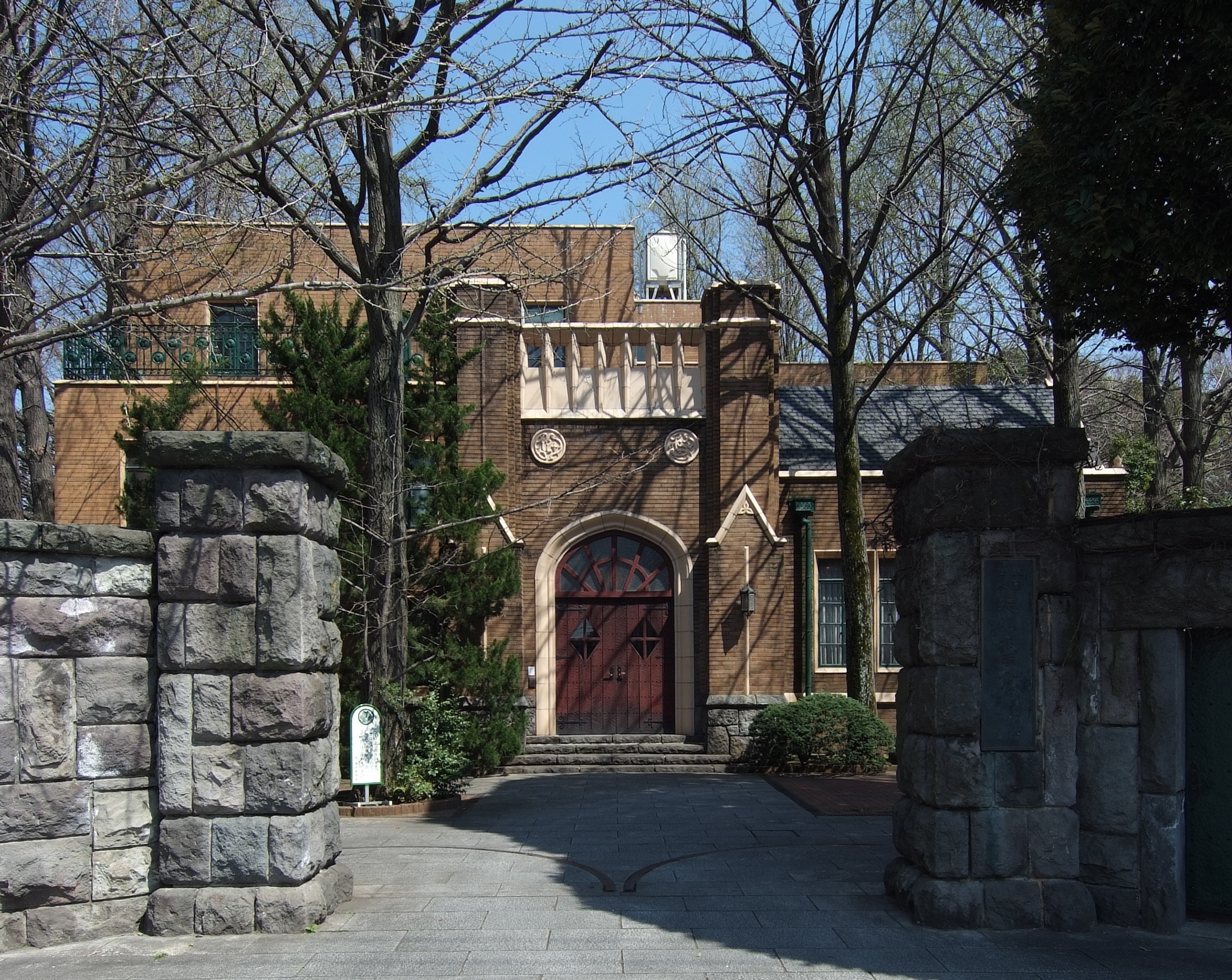 Tokugawa Reimeikai, Toshima-ku Tokyo Japan, designed by Jin Watanabe in 1932.